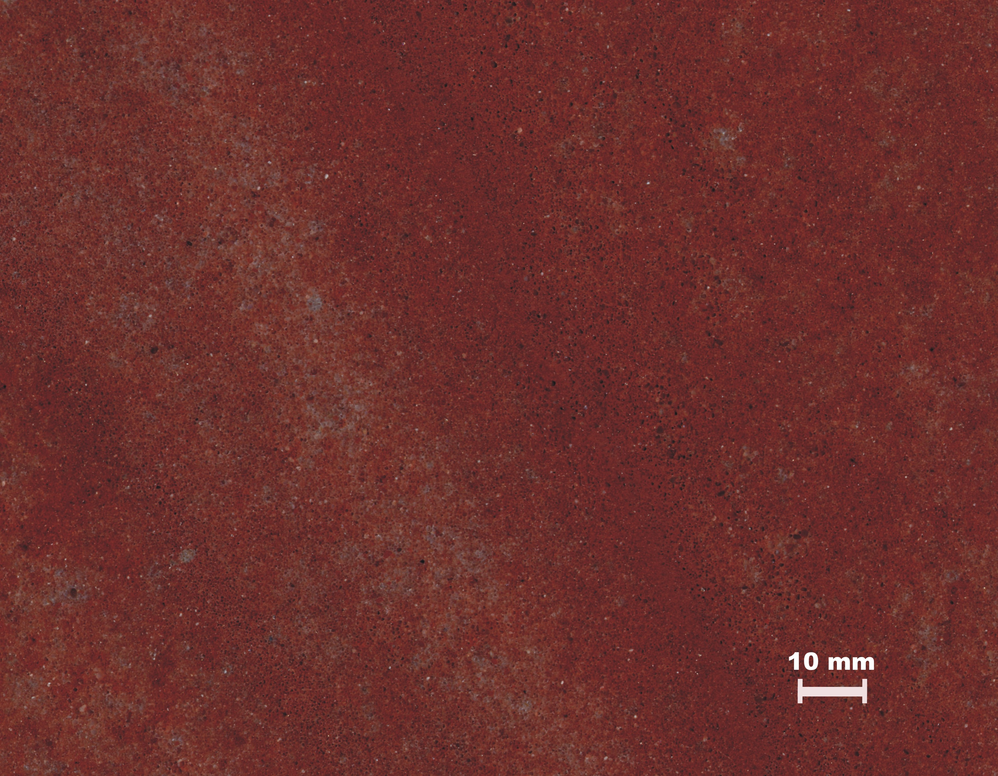 sample of Dala quartzite or Wasa quartzite (Quartzite), Sweden, Dalarnas län (Mångsbodarna)